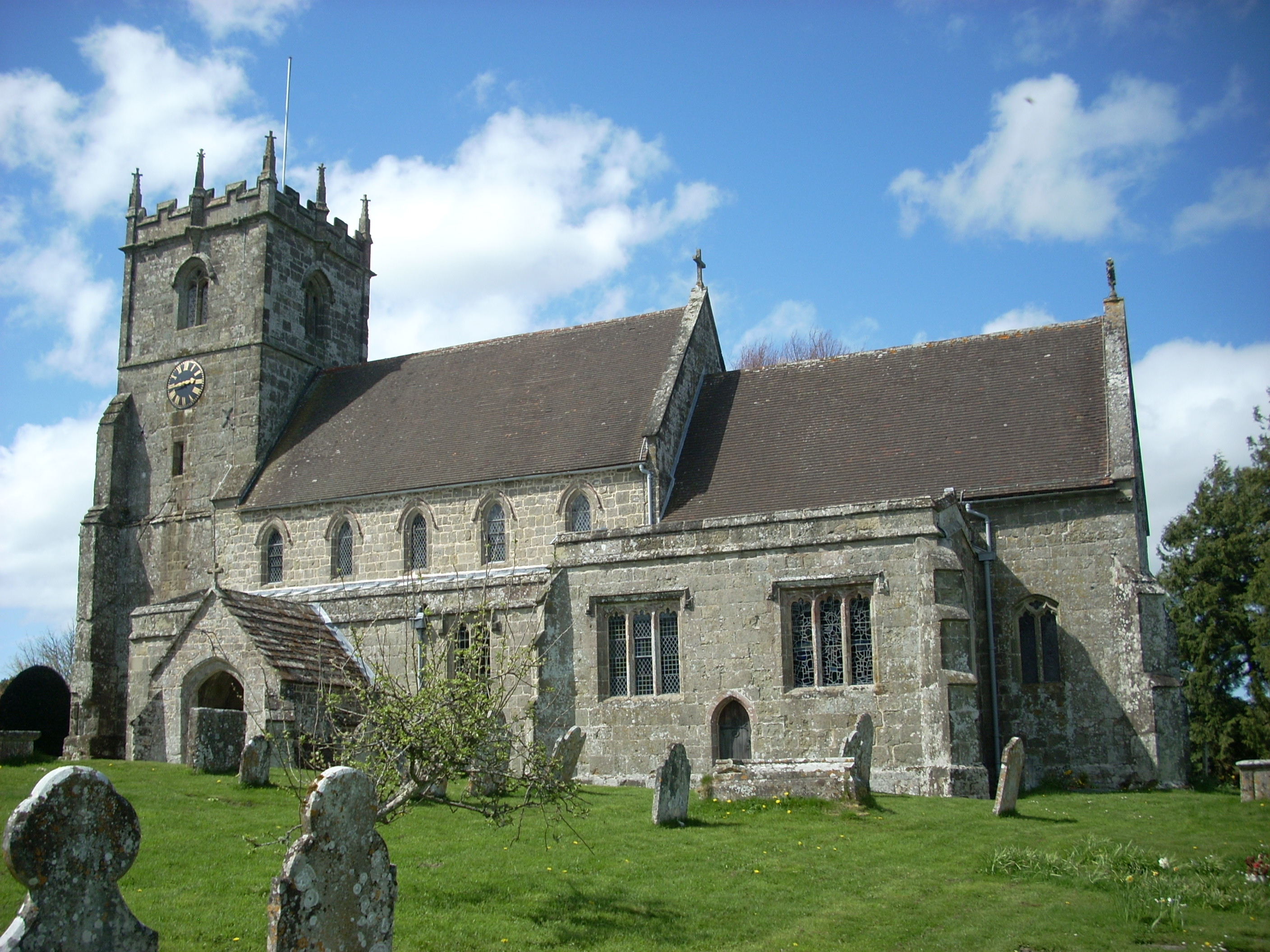 St Mary the Virgin parish church, Donhead St Mary, Wiltshire, England, seen from the southeast